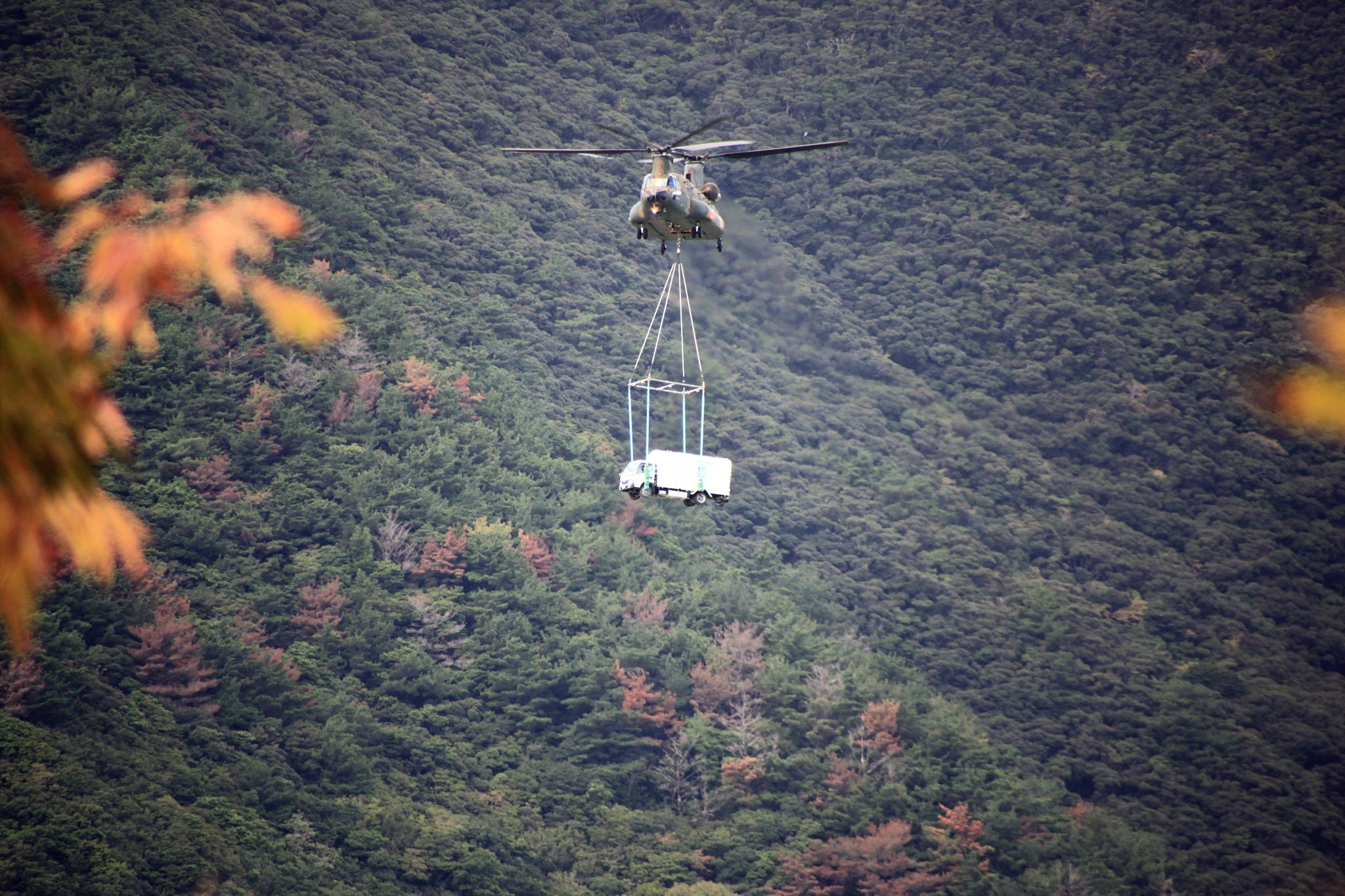 Japan Ground Self-Defense Force CH-47 helicopter carrying a vehicle